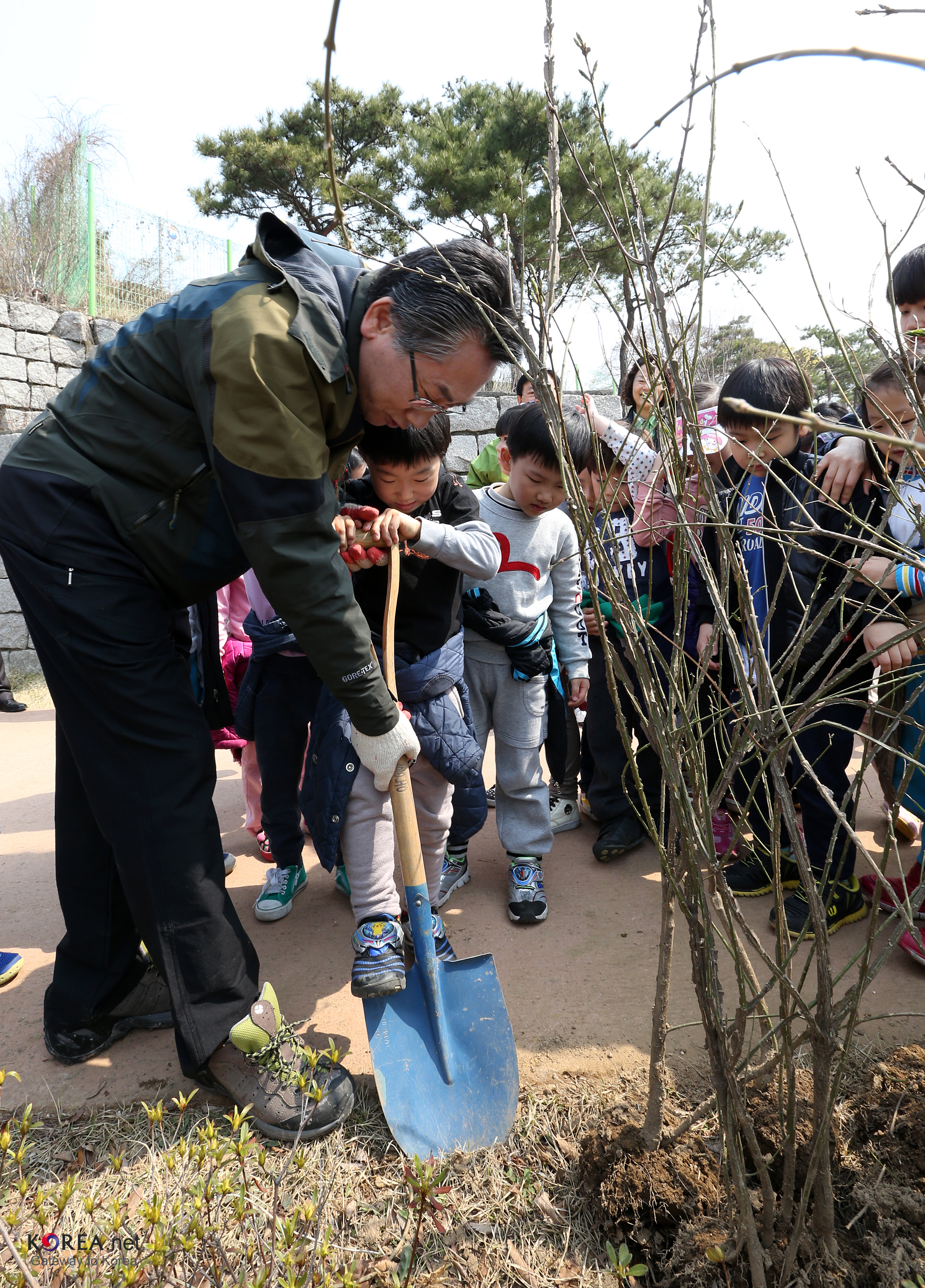 Arbor Day Sketch. Woram Neighbourhood Park, Jongno-gu, Seoul